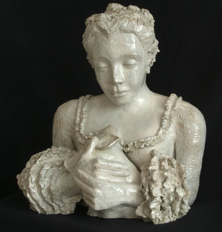 Ceramics